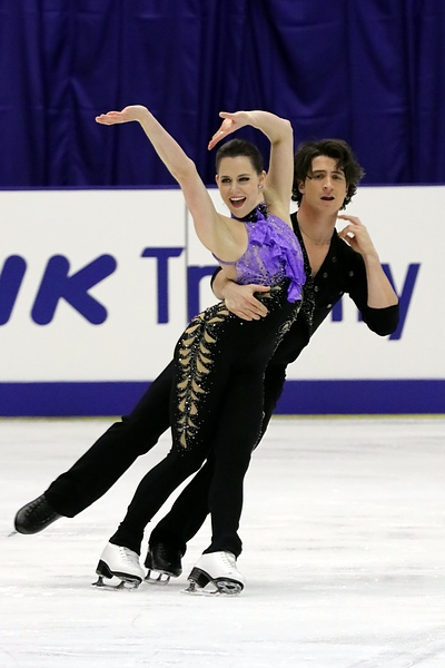 Tessa Virtue and Scott Moir at the 2016 NHK Trophy